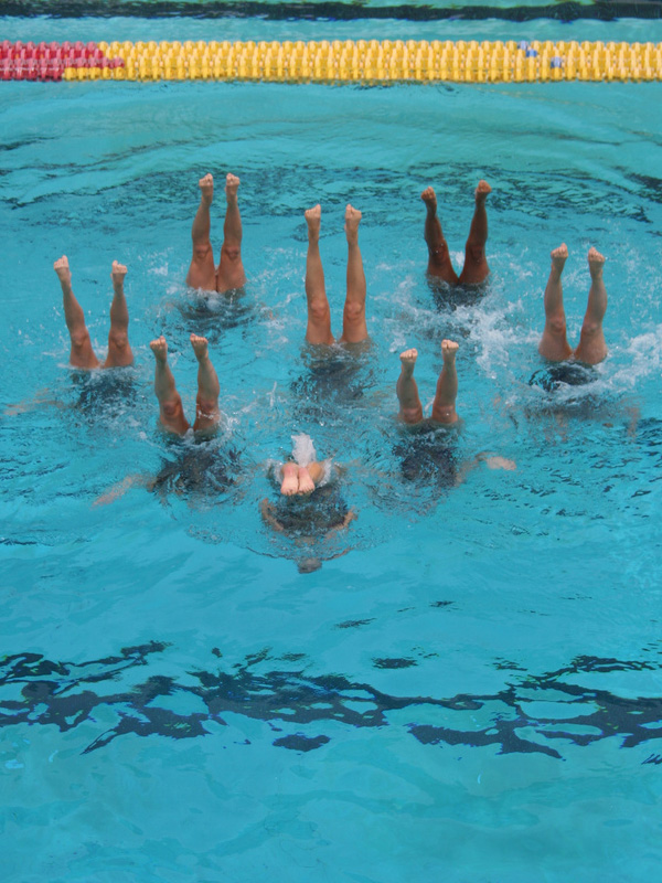 The Riverside Aquettes perform a synchronized swimming routine at the 27th annual "Swim with Mike" Saturday at USC McDonald's Swim Stadium. The event was inspired by the 1981 injury of former USC swimmer Mike Nyeholt.